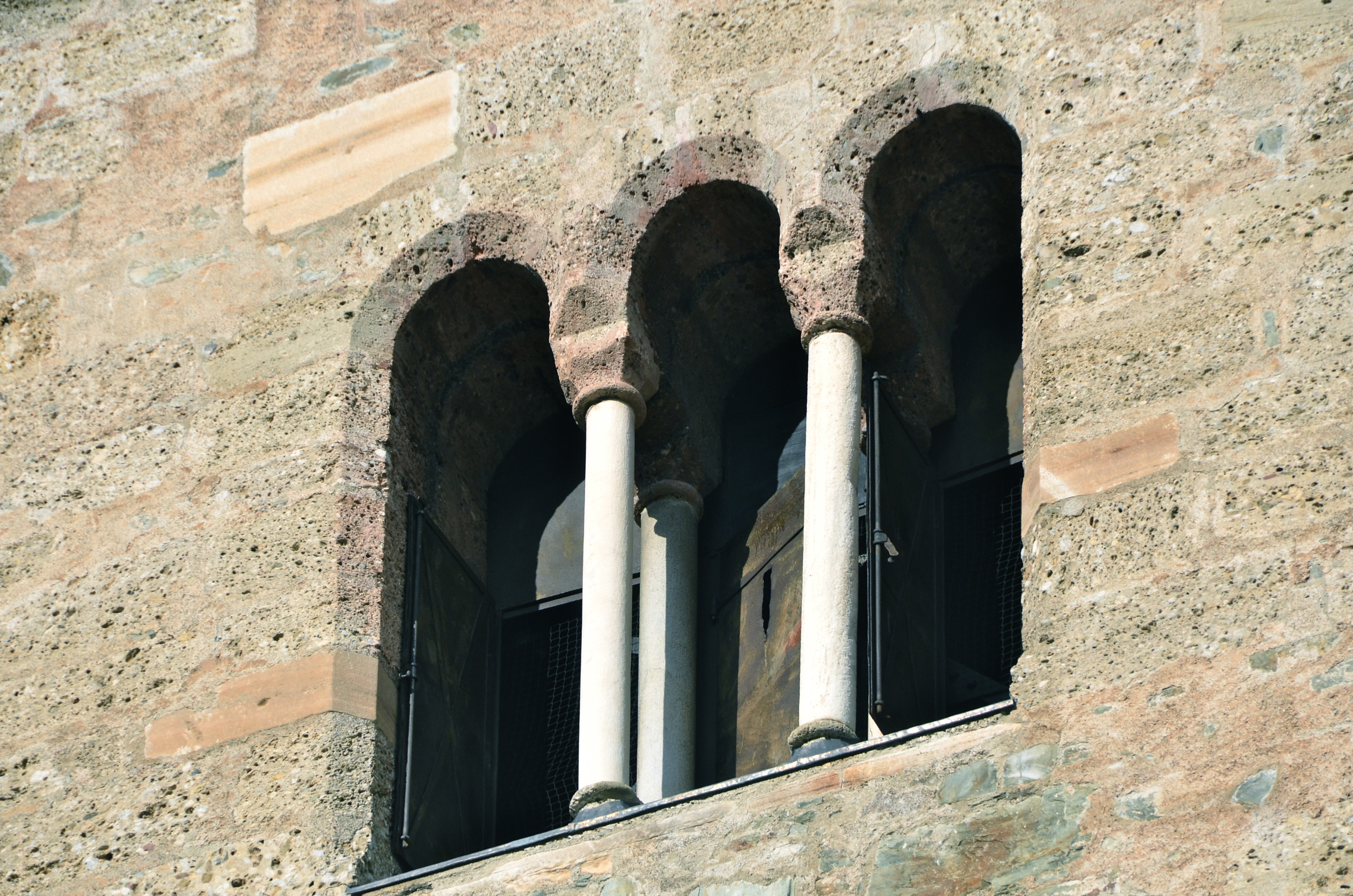 Abat-sons at the provostry parish and pilgrimage church Assumption Day, market town Maria Saal, district Klagenfurt Land, Carinthia / Austria / EU